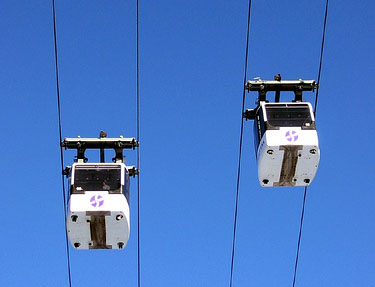 Stuart L Green